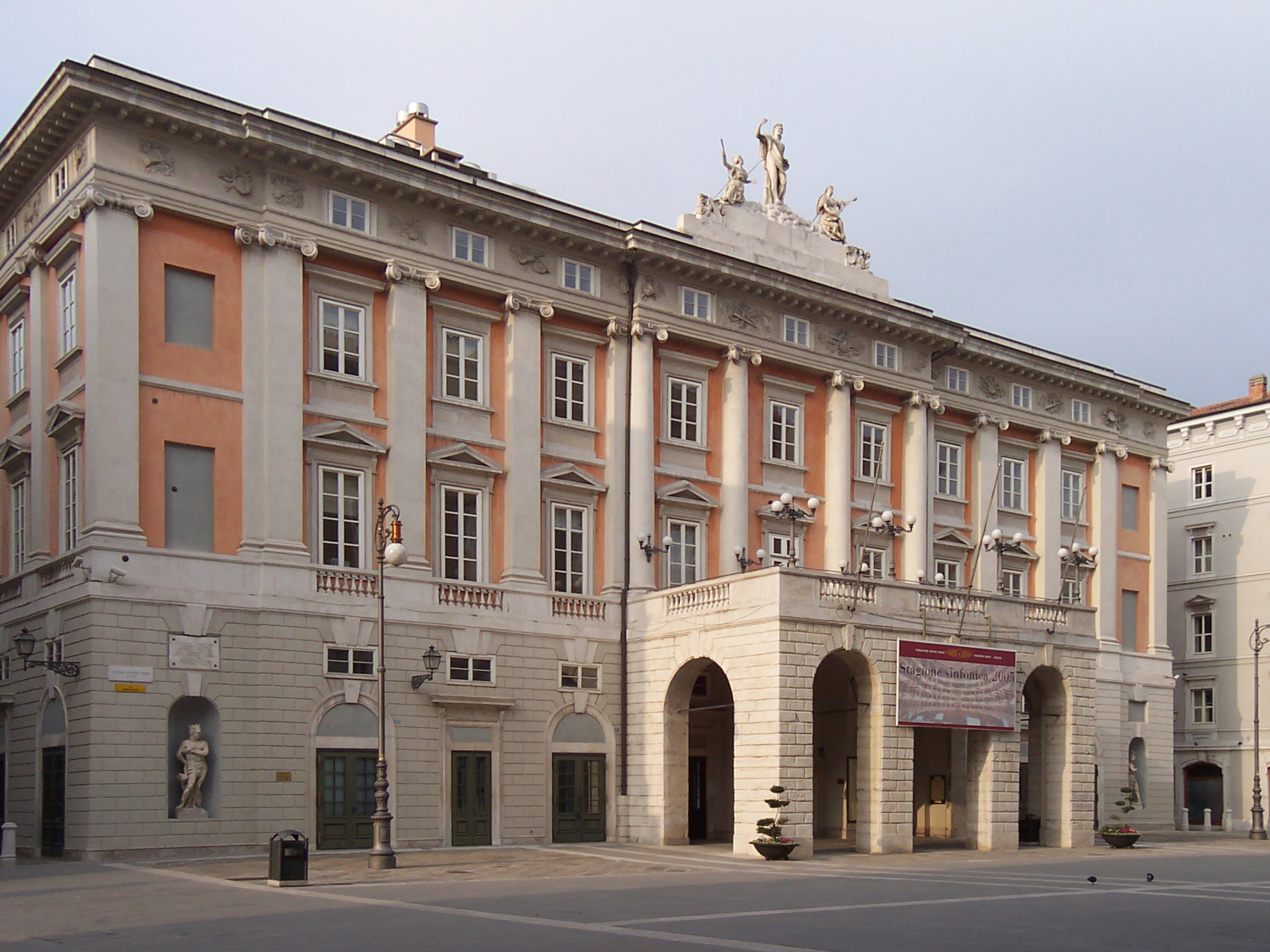 Teatro Verdi * Source photographed by myself * Photographer Pier Luigi Mora * Date 2005-10-30 Camera Data * Camera Kodak CX6330 zoom digital camera